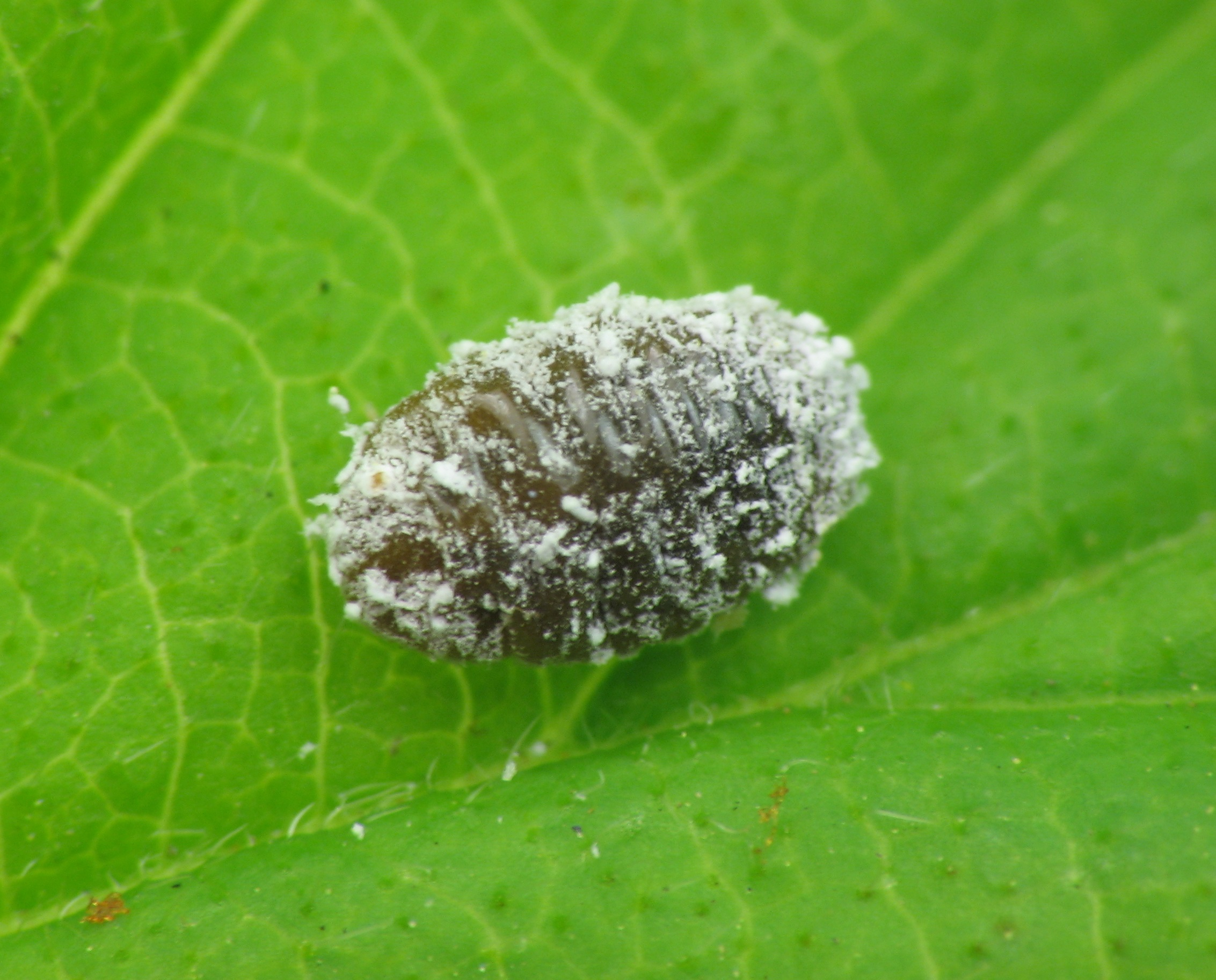 Phenacoccus aceris (apple mealybug) on arrowwood (Viburnum dentatum). Size: 5-6 mm. Briar Bush Nature Center, Montgomery County, Pennsylvania, USA.